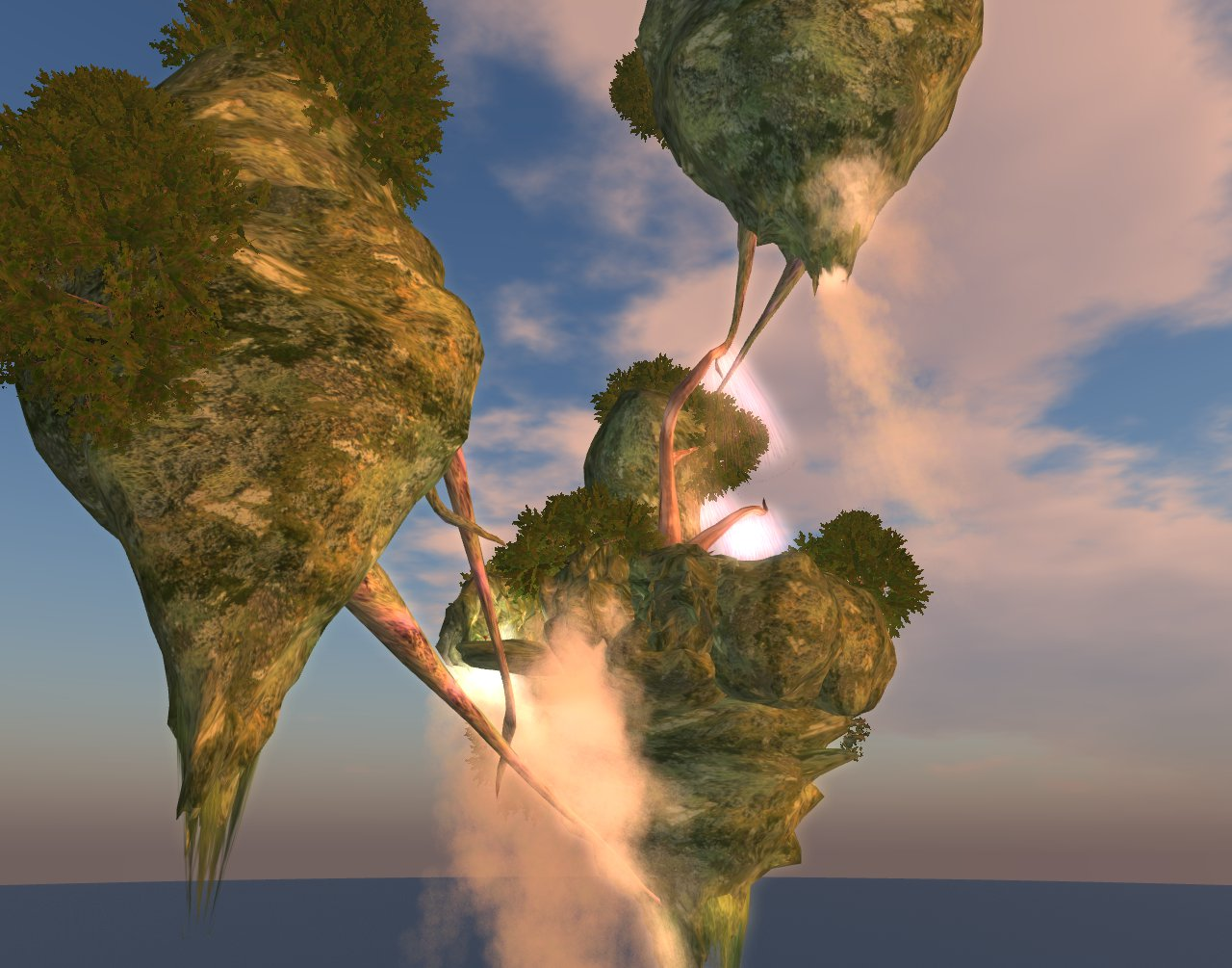 Alien landscapes inspired by the movie Avatar. Floating Mountains of Pandora. Santa Maria/16/240/469 The Hill Fort Park